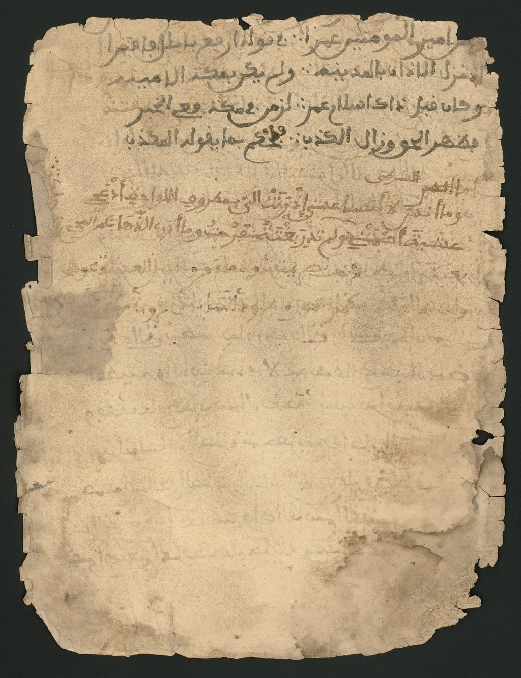 Timbuktu, founded around 1100 as a commercial center for trade across the Sahara Desert, was also an important seat of Islamic learning from the 14th century onward. The libraries of Timbuktu contain many important manuscripts, in different styles of Arabic scripts, which were written and copied by Timbuktu’s scribes and scholars. These works constitute the city’s most famous and long-lasting contribution to Islamic and world civilization. This work is about the Songhai Empire, one of the most important states in West Africa during the 14th and 15th centuries. Muslims lived in significant numbers within the empire's domains. The work examines the history of the empire and discusses important questions of Islamic law that arose within it, including the status and rights of women and children in a Muslim society. Arabic calligraphy; Arabic manuscripts; Islamic law; Islamic manuscripts; Muslim children -- Conduct of life; Muslim women -- Social conditions; Muslims; Songhai Empire; Timbuktu manuscripts